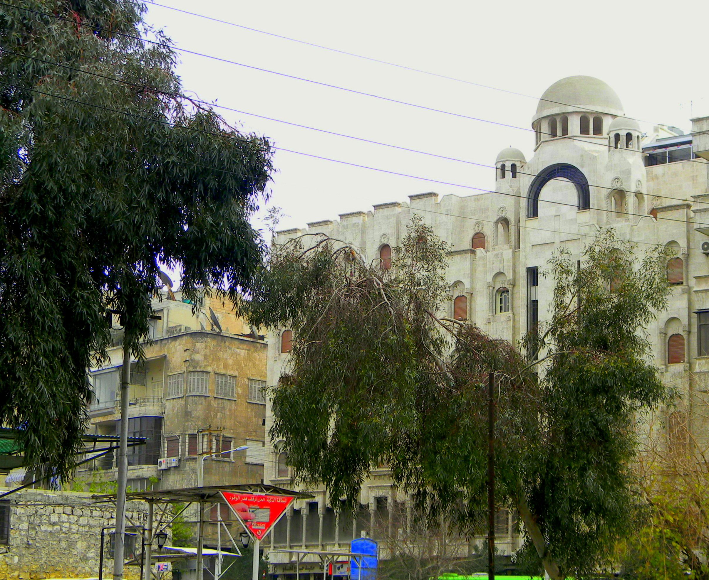 Cathedral of Saint Ephrem the Syrian, Aleppo, Syria.